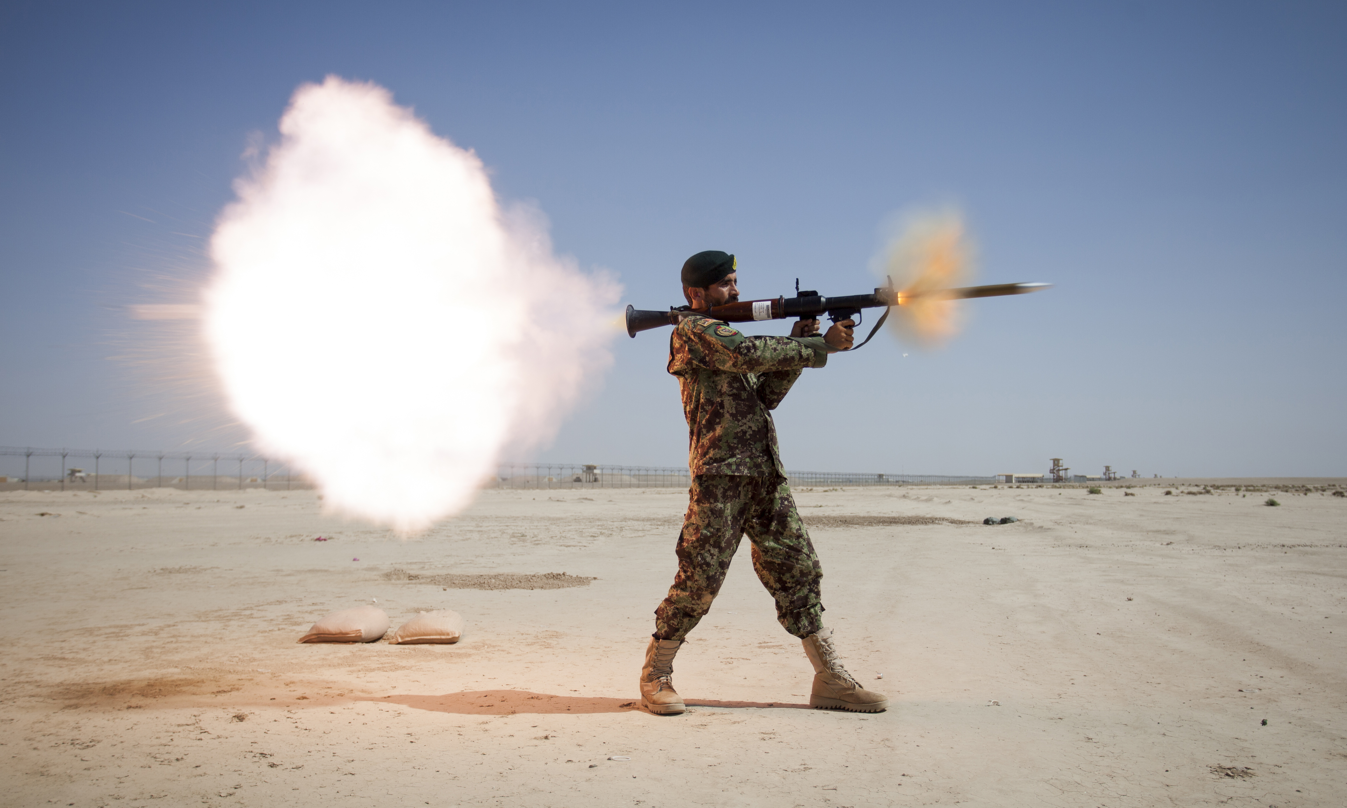 An Afghan National Army (ANA) soldier assigned to the Mobile Strike Force Kandak fires a RPG-7 rocket-propelled grenade launcher during a live-fire exercise supervised by the Marines with the Mobile Strike Force Advisor Team on Camp Shorabak, Helmand province, Afghanistan, May 20, 2013. The Marines with the Mobile Strike Force Advisor Team instructed and mentored their ANA counterparts on how to properly utilize their weapons systems. (Photo ID: 937183)